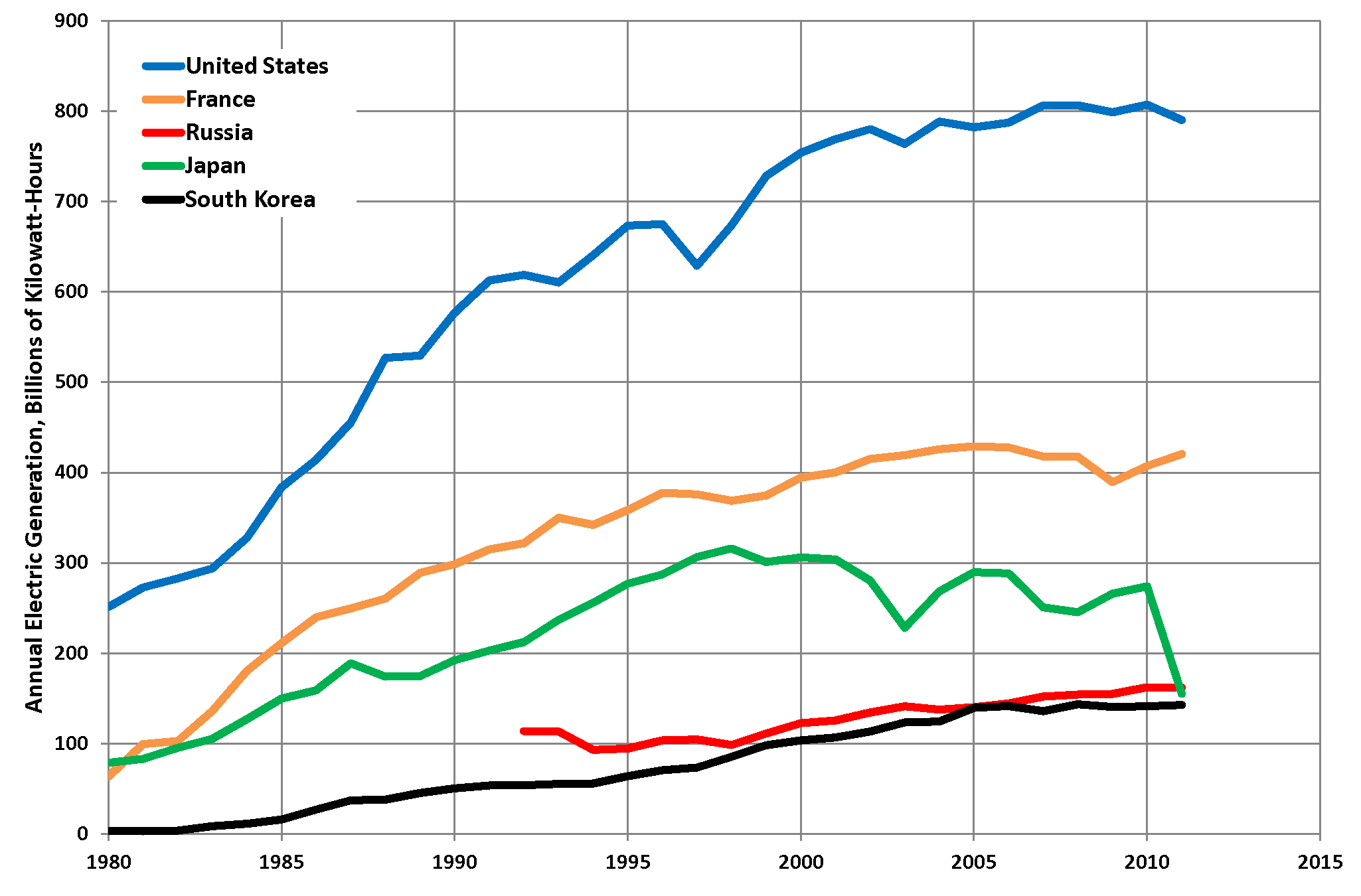 Trends in the top five nuclear-energy producing company